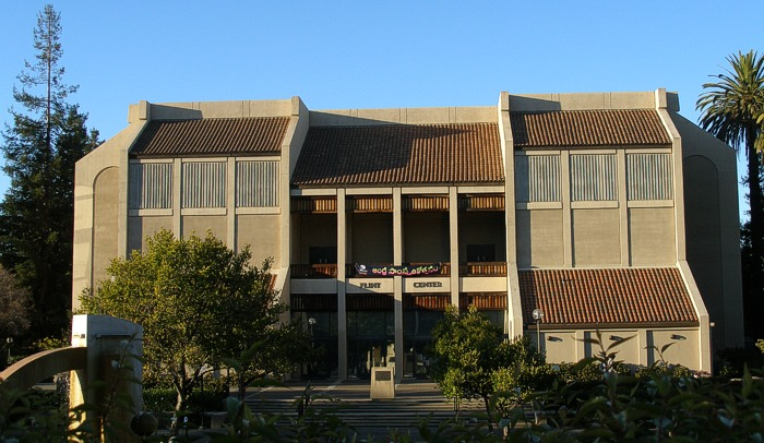 Flint Center, the main auditorium at De Anza College in Cupertino, California. Besides hosting college-related events, it is also the main performing arts venue for the western part of Silicon Valley and hosts the occasional celebrity as part of its Celebrity Forum program. Photographed by user Coolcaesar on October 10, en:2005.